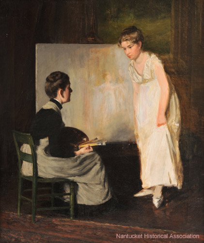 Elizabeth Rebecca Coffin, Portrait of the Artist in Conversation with Subject (unfinished), circa 1890